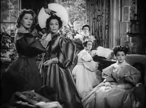 Cropped screenshot of Greer Garson, Maureen O'Sullivan, Ann Rutherford, Marsha Hunt and Heather Angel from the trailer for the film Pride and Prejudice (1940).